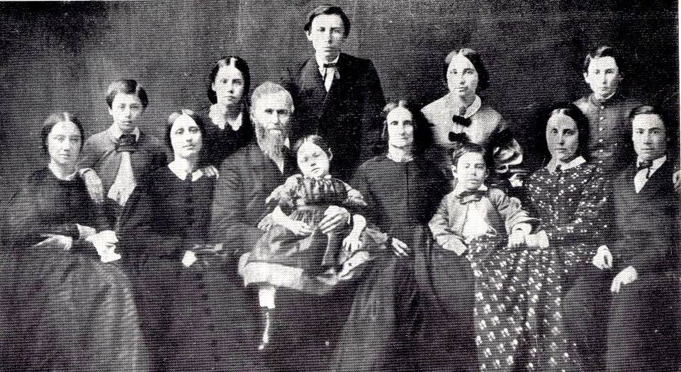 Daniel Lindley and family (Pennsylvania, August 24, 1801 – Morristown, New Jersey, September 3, 1880) was an American missionary in South Africa. He and his wife Lucy founded the Inanda Seminary School in 1869. The picture of Daniel with his family includes from the left: Sarah Adams, James Bryant, Mary Elizabeth, Lucy Virginia, Rev. Daniel Lindley, Clara Louise (child in arms), Newton Adams (standing), Mrs. Lucy Allen Lindley, Martha Jane, Charles Lutellus (boy seated), Charlotte Hannah, John and Daniel Allen. Rochester, New York about 1861.